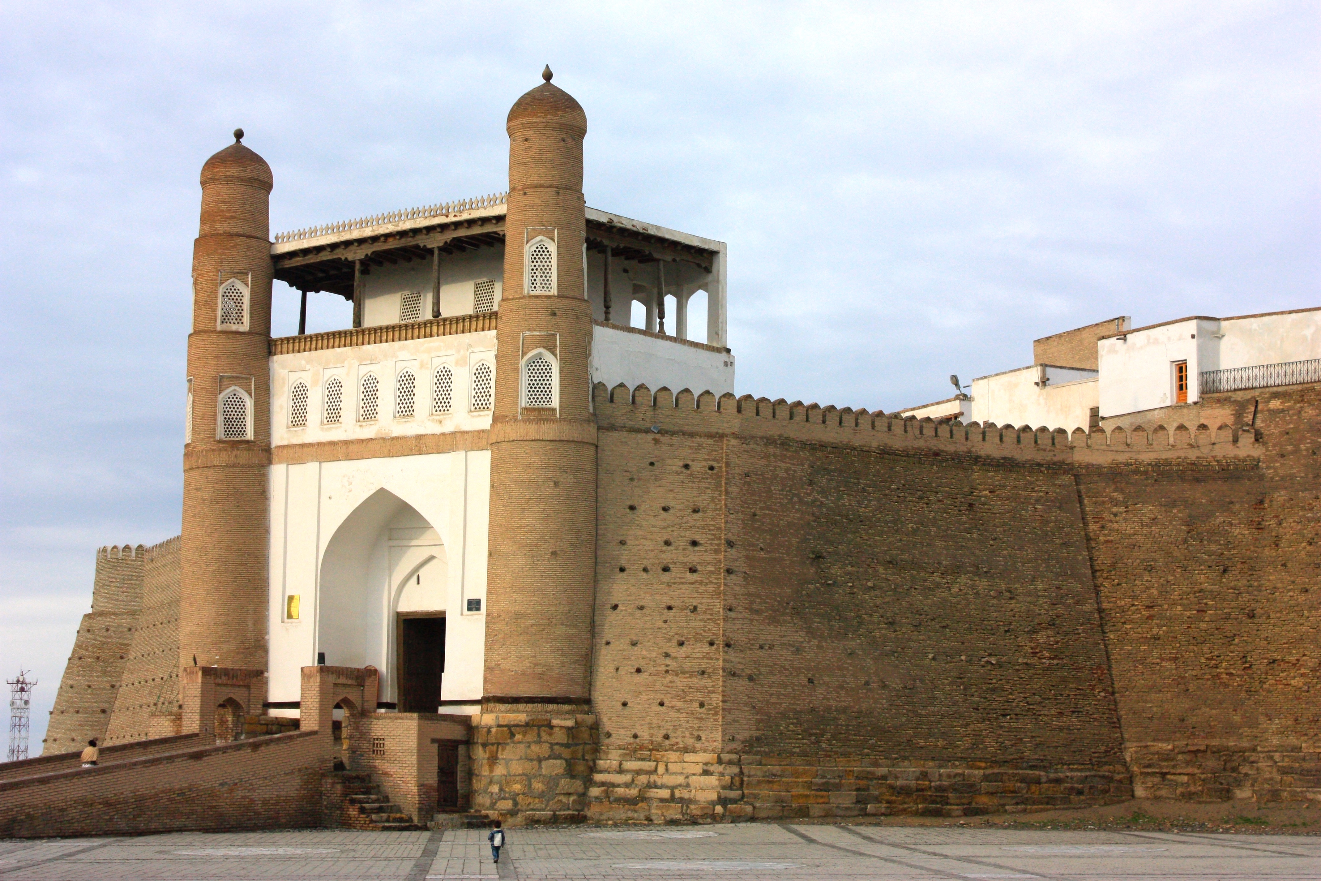 A view of the Ark Fortress in Bukhara, Uzbekistan